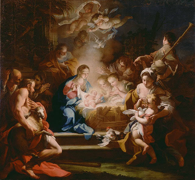 The Adoration of the Shepherds